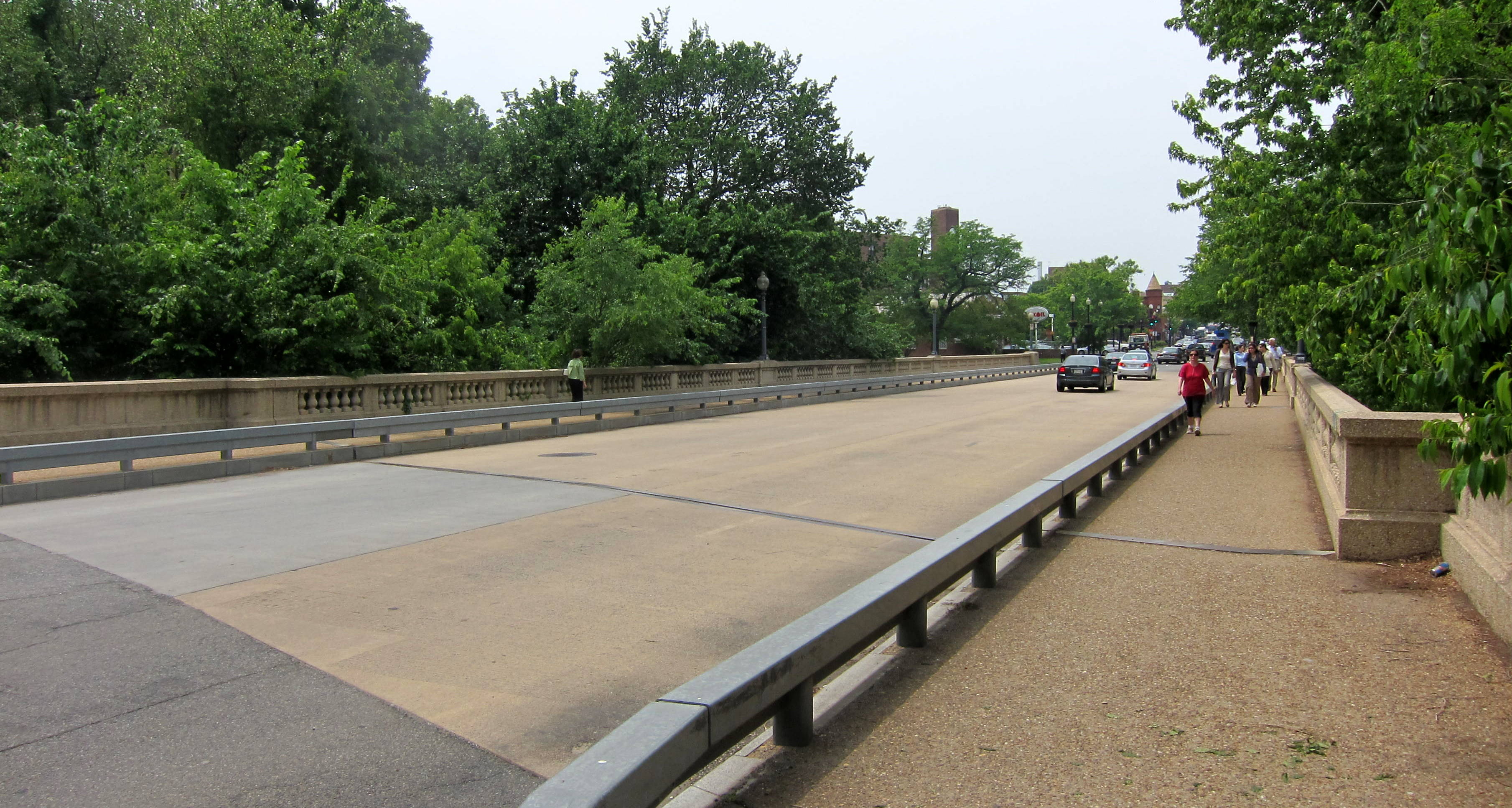 M Street Bridge, which carries M Street, N.W., over Rock Creek and the Rock Creek and Potomac Parkway between the Georgetown and Foggy Bottom neighborhoods of Washington, D.C.